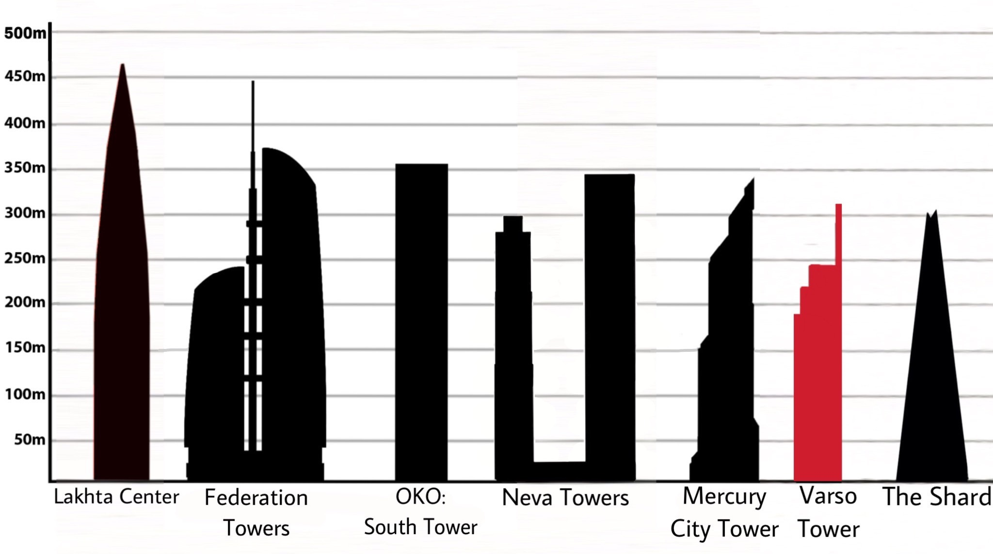 The tallest skyscrapers of Europe in 2020. (The Varso Tower is still under construction)